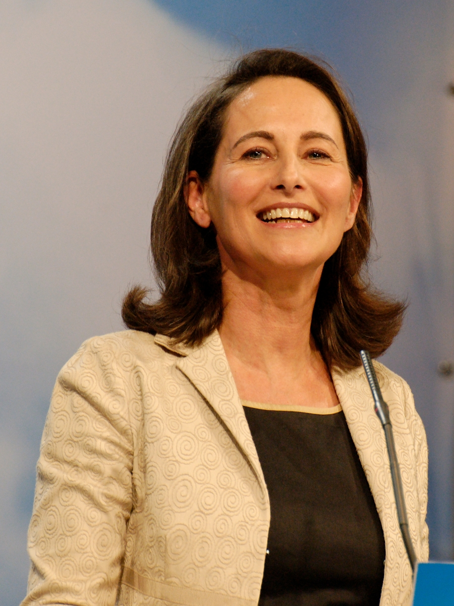 Ségolène Royal at a meeting held on Feb. 6, 2007 by the French Socialist Party at the Carpentier Hall in Paris.